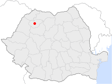 Location of Zalău in Romania.